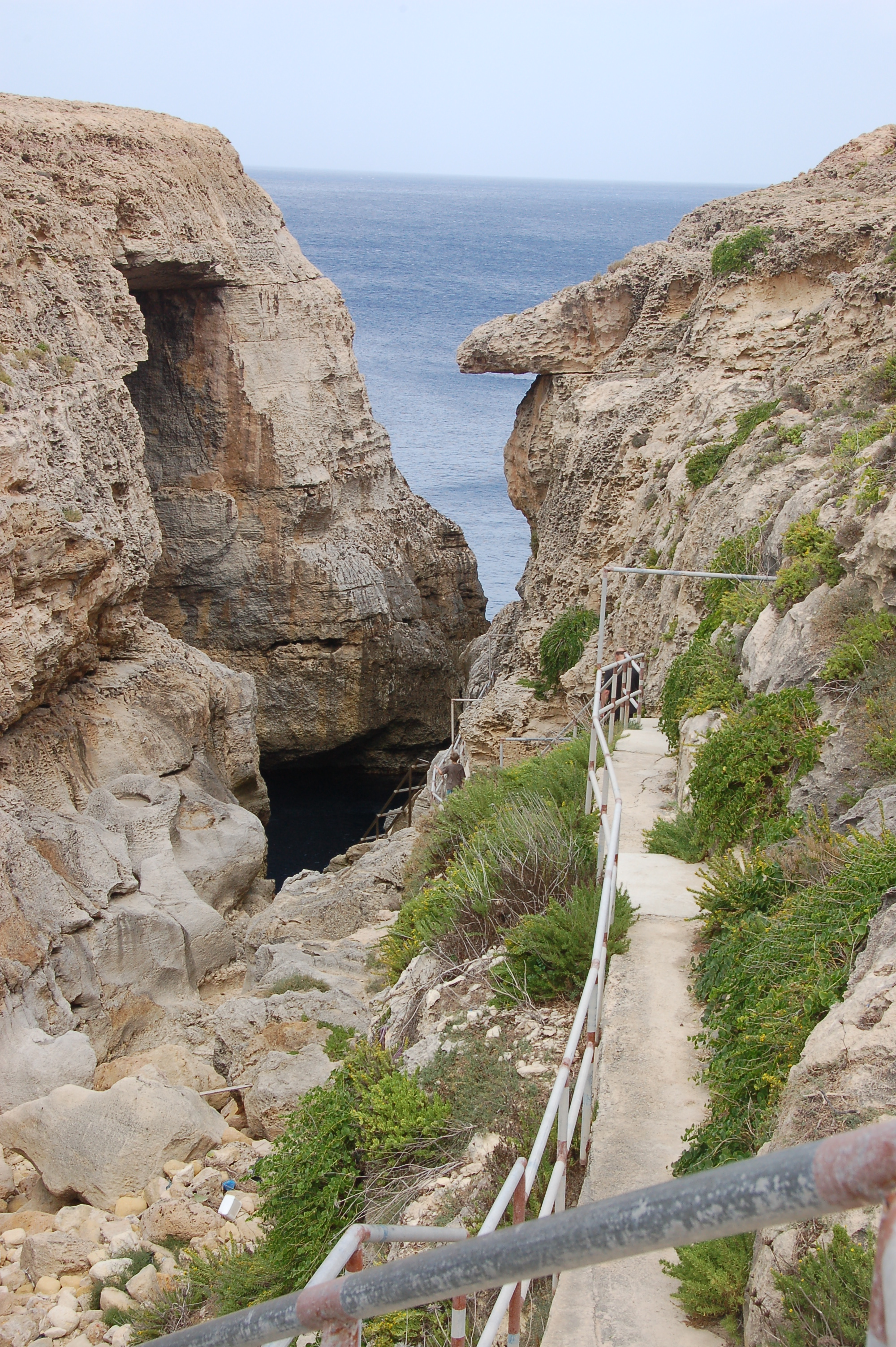 Steep way down close to the food of the Wied il-Mielah Window